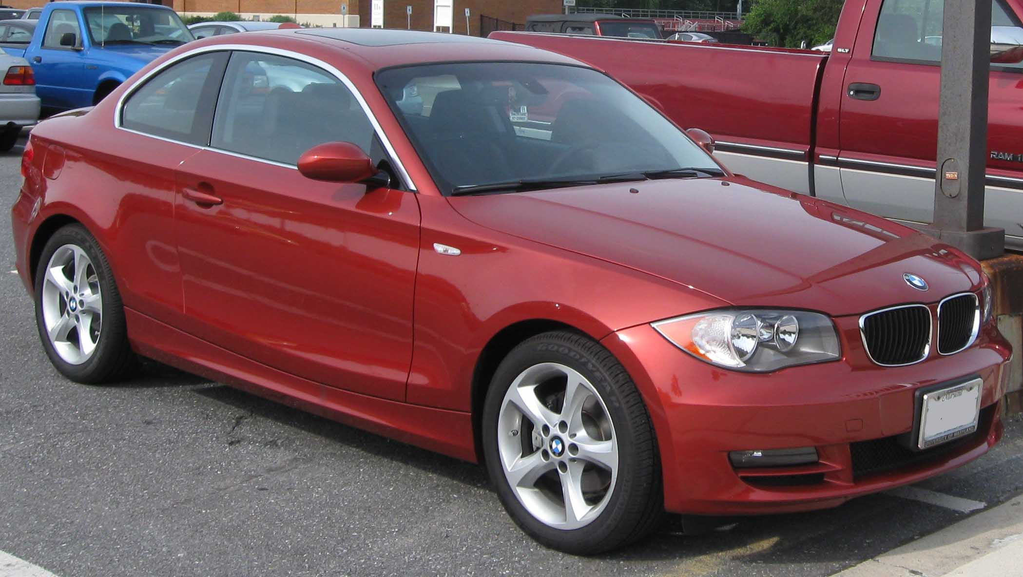 2008 BMW 128i photographed in College Park, Maryland, USA.